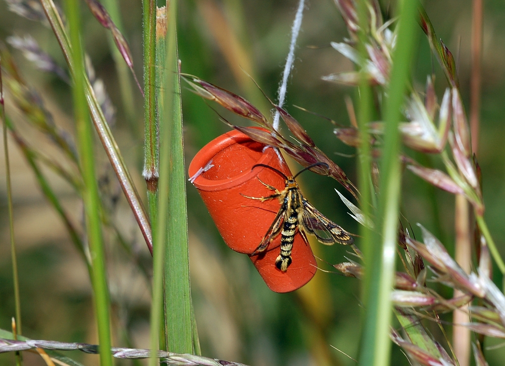 Sesiidae, Chamaesphecia empiformis (det. Andreas Lange) on pheromone trap, Kaub, Germany